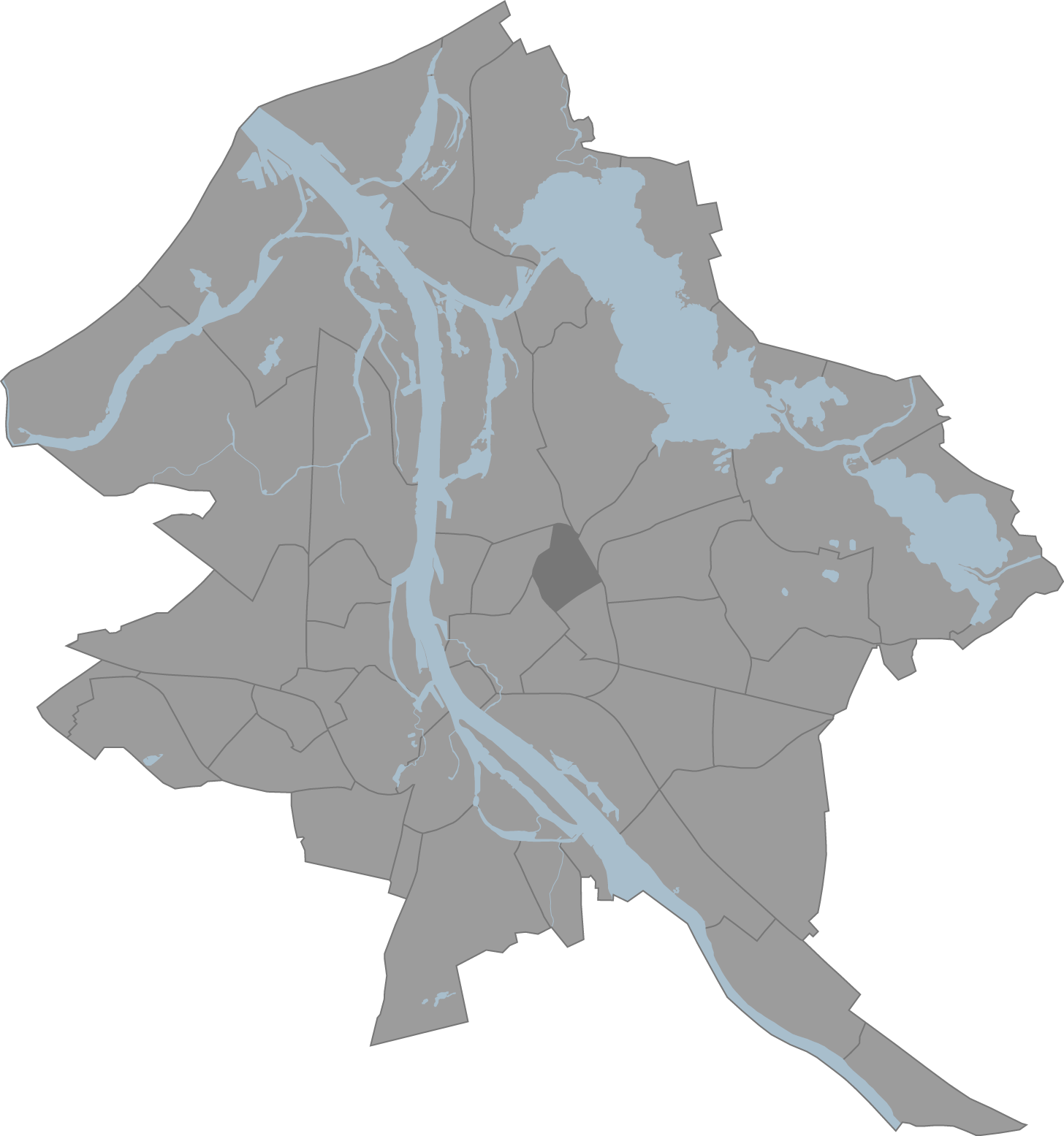 A map of Riga, Latvia with the eponymous commune highlighted